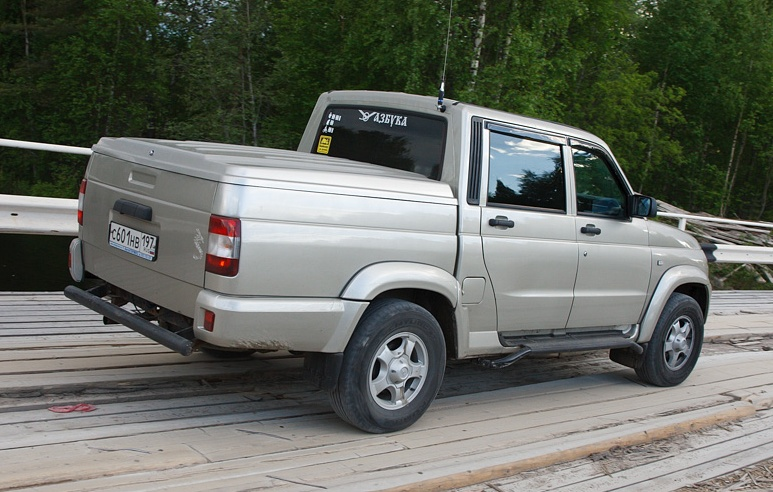 UAZ Pickup